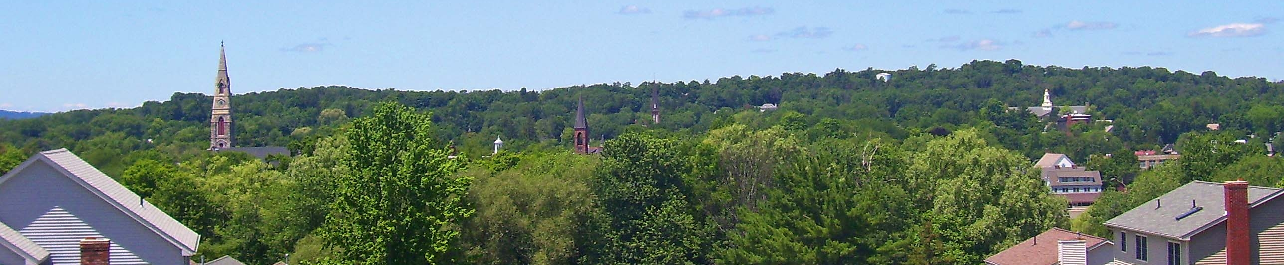 Village of Goshen, NY, USA, viewed from Arthur Place at the eastern village line.